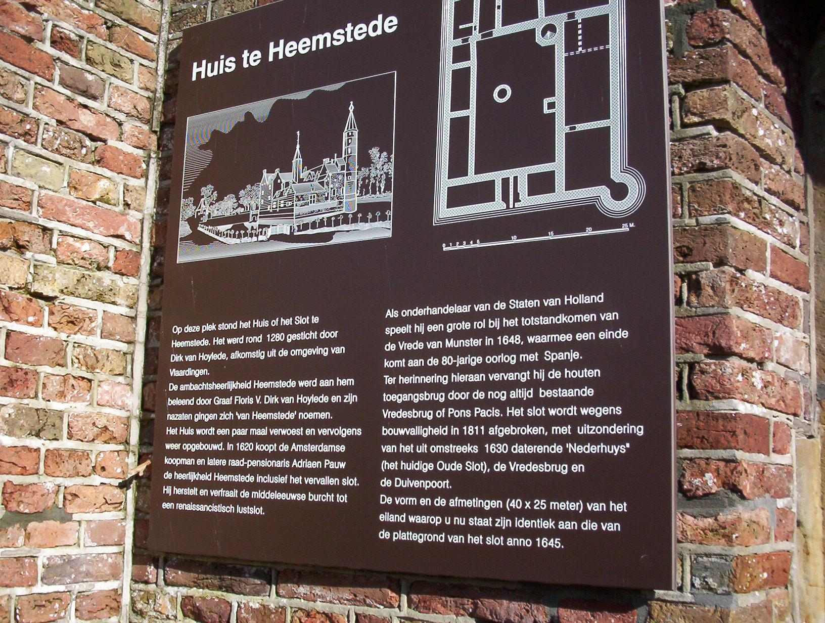 Translation of the text on the sign: "On this spot stood Heemstede House or Mansion. It was first built by Dirk van Hoylde in 1280, who came from the Vlaardingen area. The ambachtsheerlijkheid of Heemstede was enfeoffed to him by Count Floris V. From then on Dirk van Hoylede and his descendants used the surname 'van Heemstede'. The house was destroyed a couple of times and then rebuilt. In 1620 Amsterdam merchant (and later Grand Pensionary Adriaen Pauw purchased the heelijkheid, including its delapidated castle. After restoration and embellishment, it becamse a Renaissance summer mansion. As the negotiator for the States of Holland, he played an important role in the 1648 Peace of Munster that ended the Eighty Year War with Spain. As a memorial to this, he replaced the wooden access bridge with the Vredesbrug or Pons Pacis. By 1811, the house had become delapidated again, at which time it was demolished with the exception of the 1640 'Nederhuys' ("Lower House", consisiting of the current Old Mansion, the Peace Bridge and the Dove Gate. The form and measurements (40x25 meter) of the island on which you now stand are identical to the plan for the 1645 mansion."